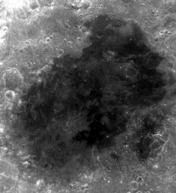 Mare Moscoviense sits in the Moscoviense basin.Like Mare Marginis, this mare appears to be fairly thin. However, it is clearly centered within a large impact basin. It is also much lower than either the outer basin floor or the farside highlands. The great depth of this mare beneath the nearby highlands probably explains why mare units are so rare on the lunar farside. Very few basins on the farside were deep enough to allow mare volcanism. Thus, while large impact basins are found on both the nearside and farside, large mare are mostly found on the nearside. Mare lavas apparently could reach the surface more often and more easily there. The basin material is of the Nectarian epoch, while the mare material is of the Upper Imbrian epoch. The crater Komarov is seen to the southeast of the mare. You can just make out the crater Titov in the northern regin of the mare.